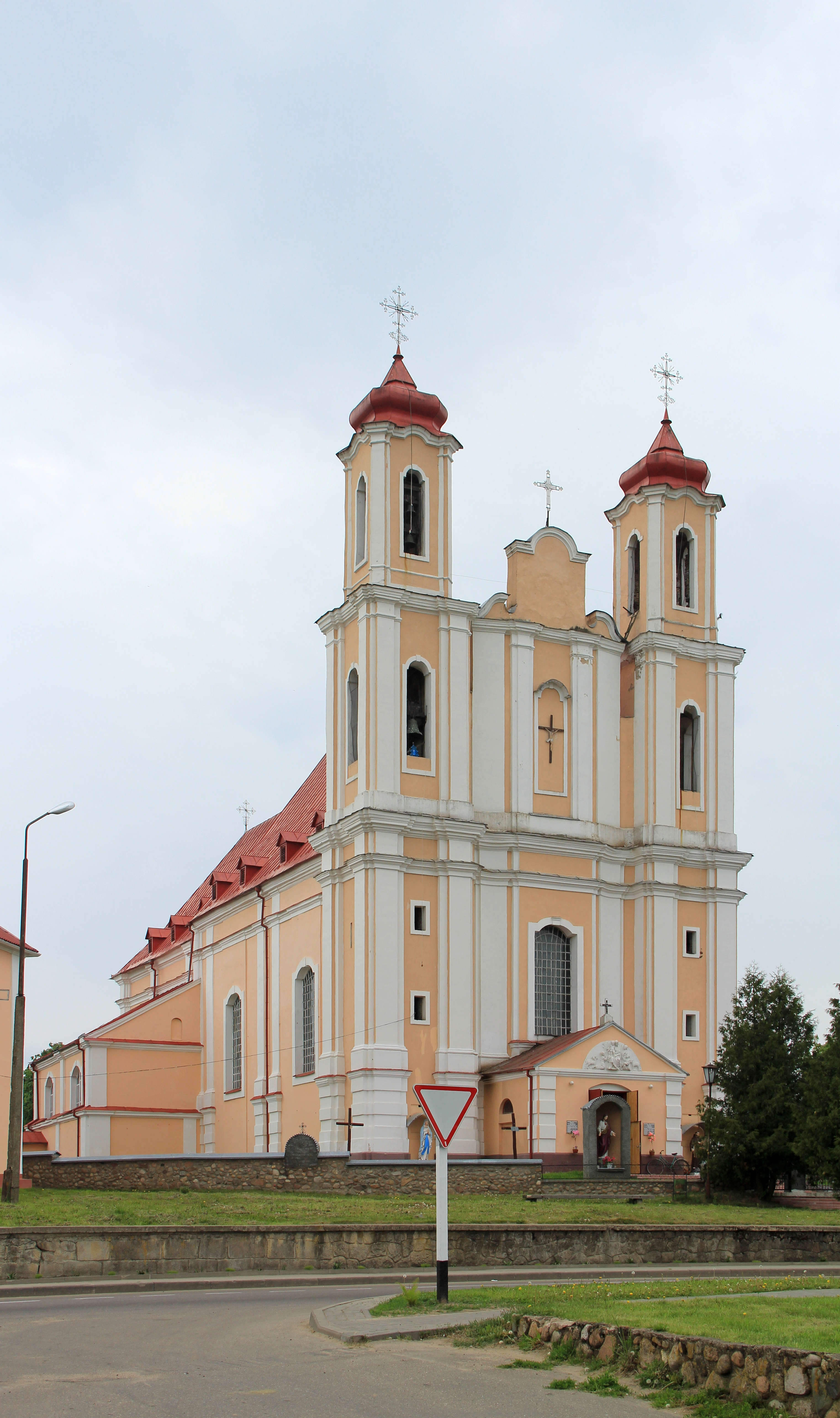 St. George's Catholic Church (1767-69) in Varniany, Astravets district, Hrodna region, Belarus